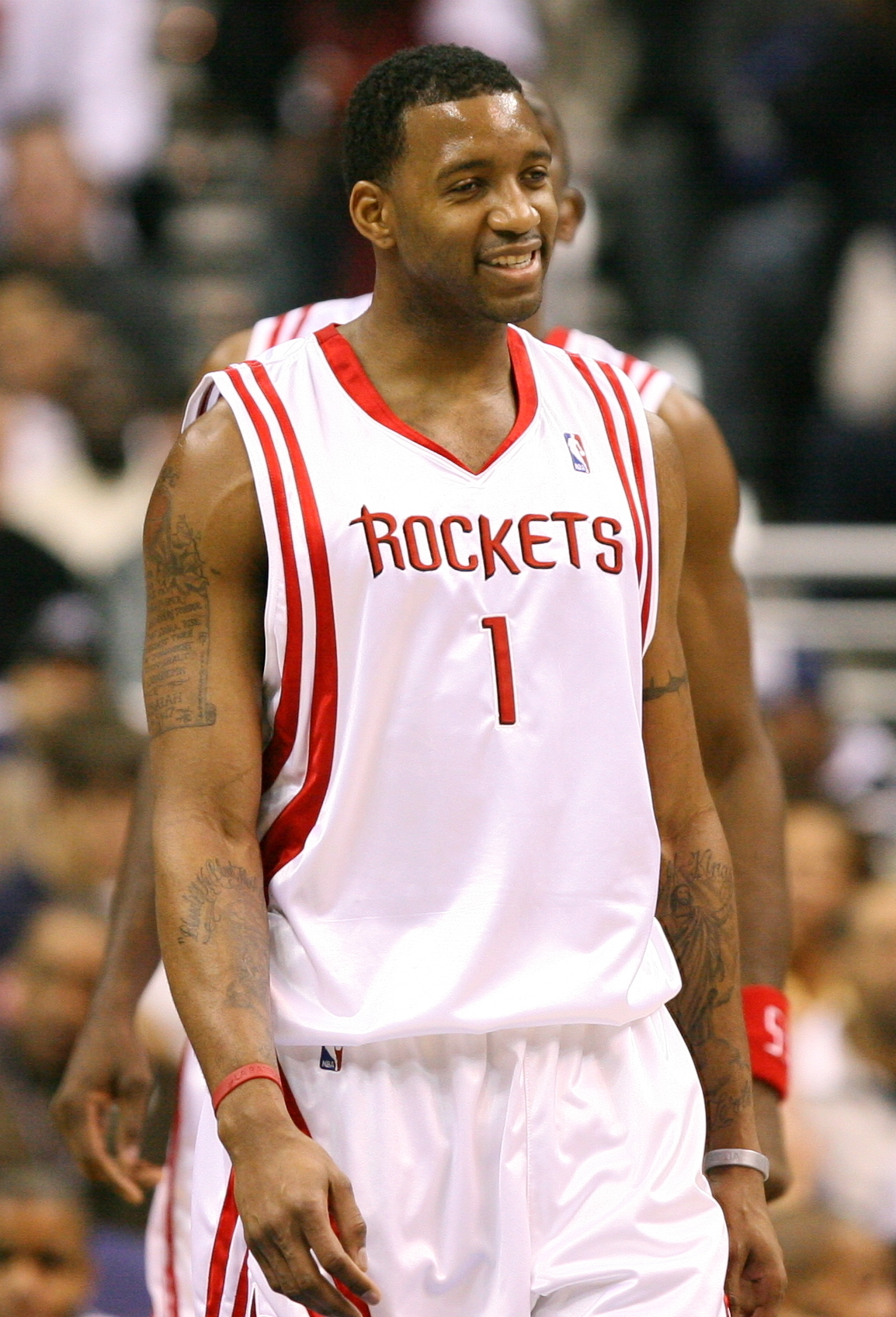 Tracy McGrady playing against the Washington Wizards of the National Basketball Association/